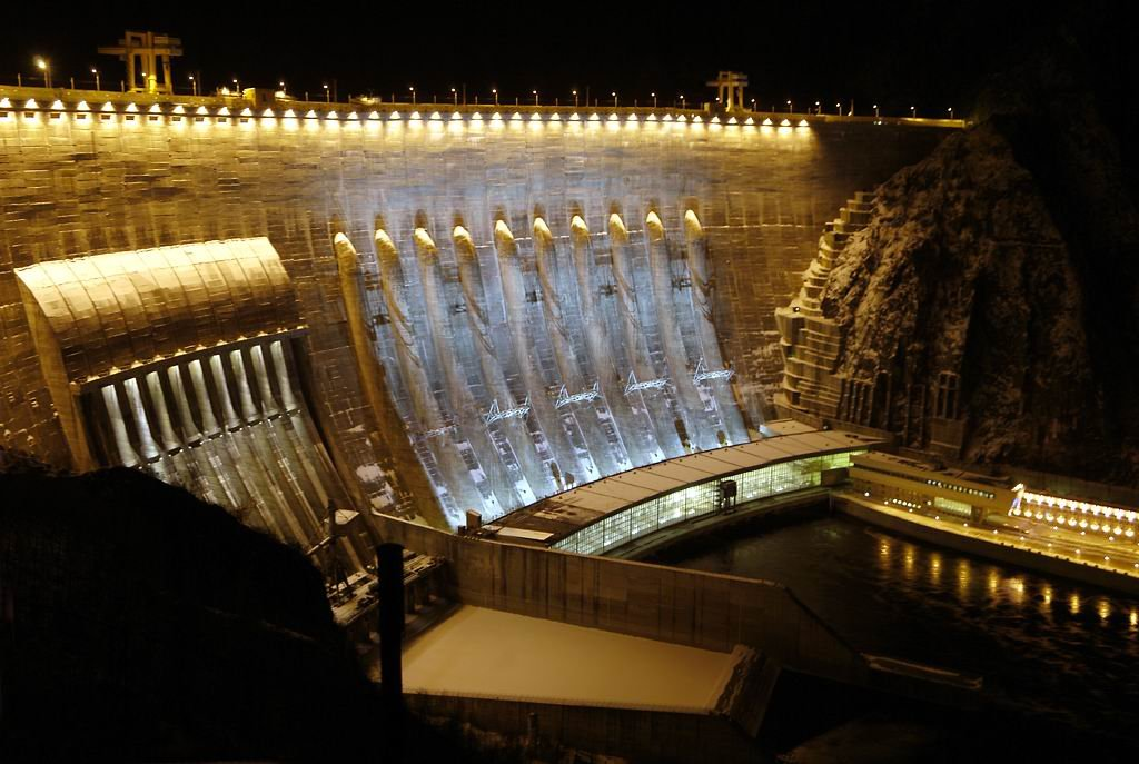 Illustration from the technological investigation of the cause of the accident at the Sayano-Shushenskaya Hydroelectric Power Station on August 17, 2009